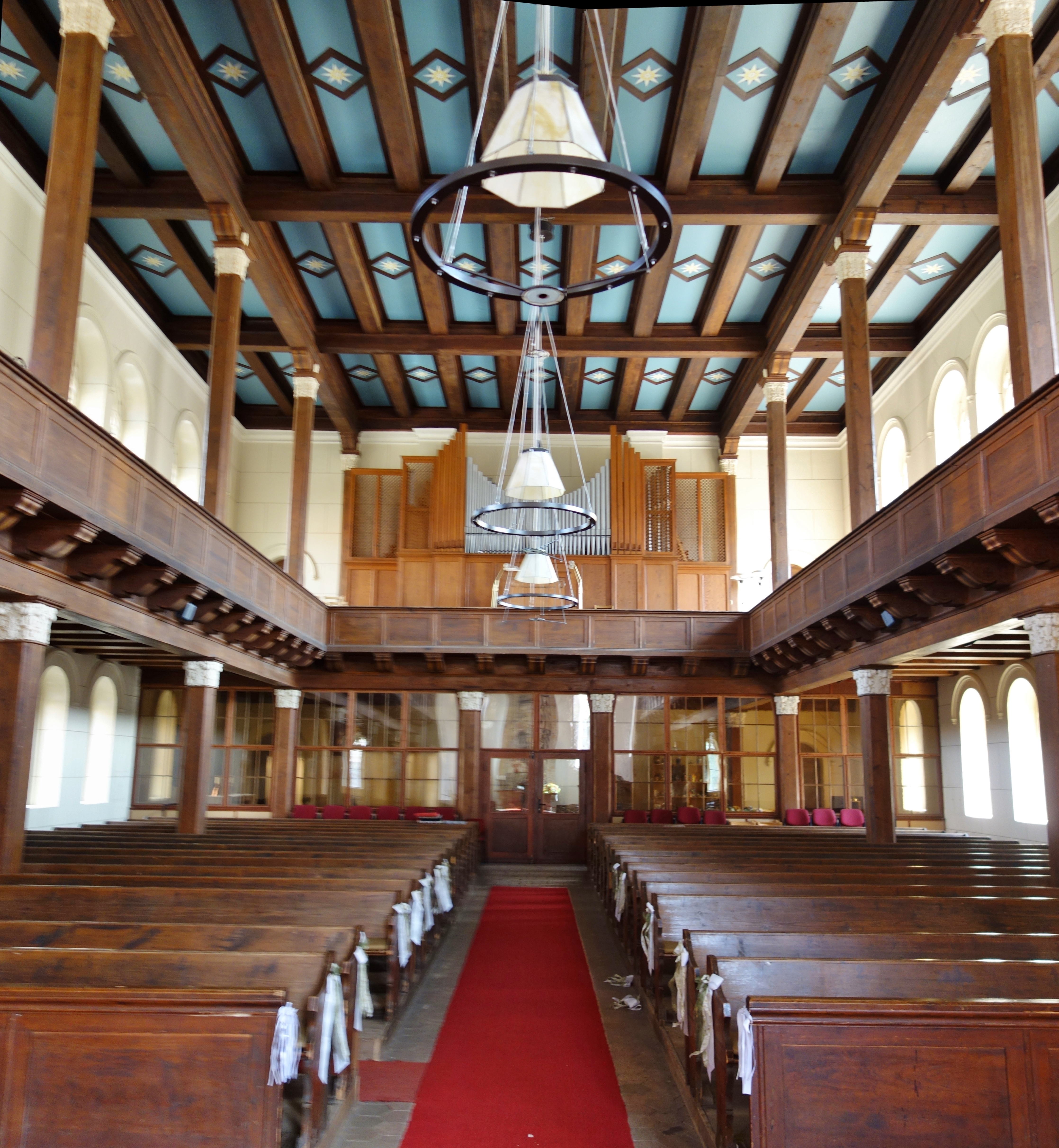 Eastern interior of church in Fürstenberg/Havel municipality, Oberhavel district, Brandenburg state, Germany